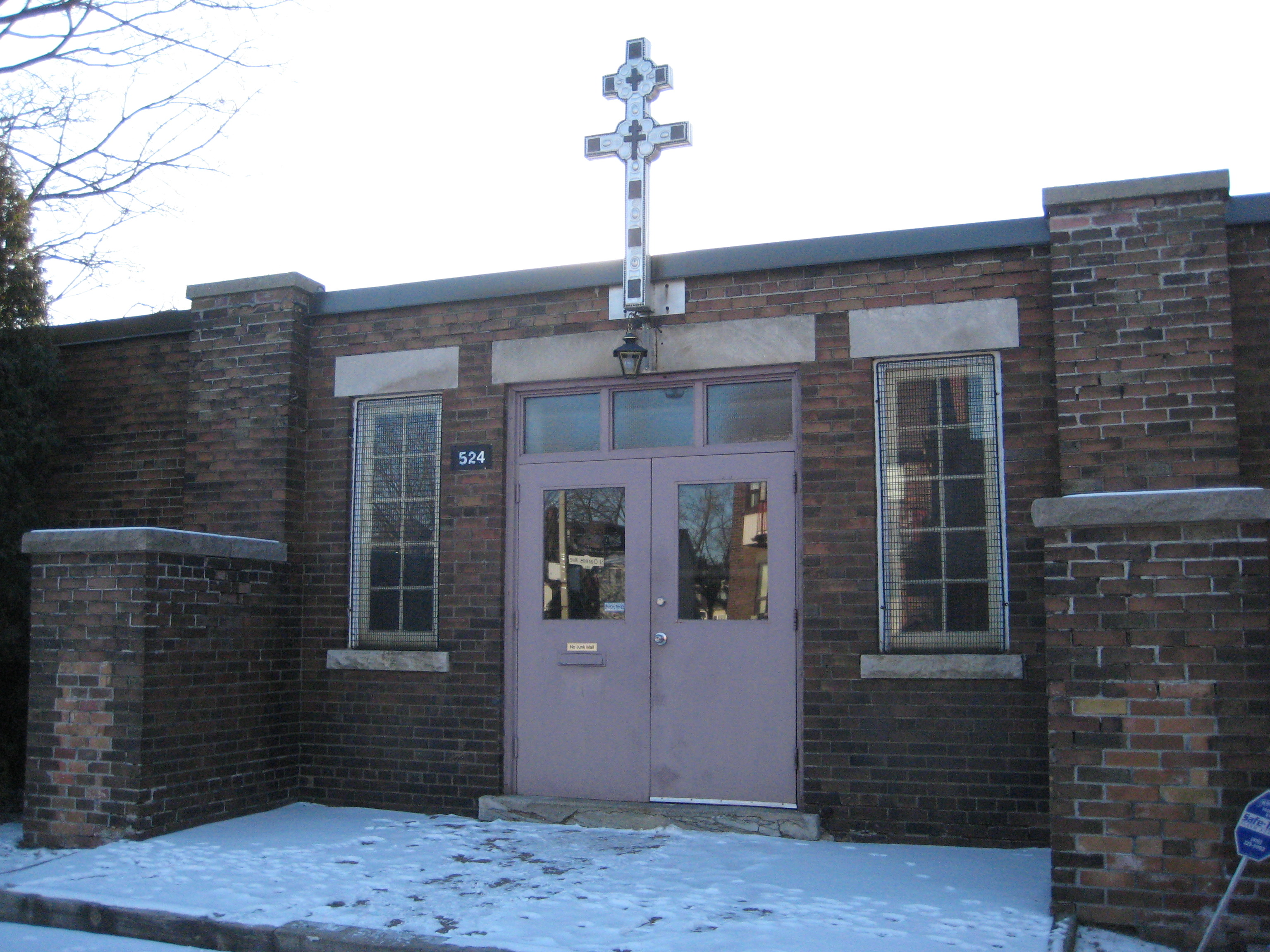 St. Cyril of Turov Parish